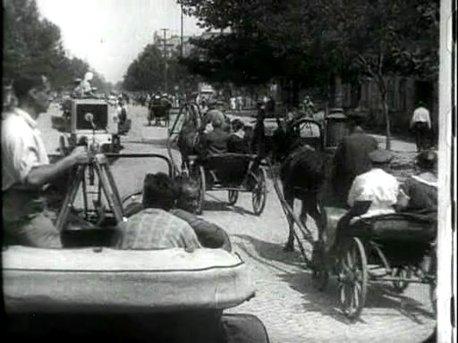 Camera crew, film Dziga Vertov's "Man with a Movie Camera", 1929